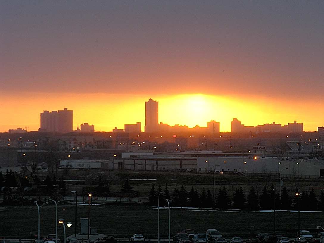 Winnipeg sunrise, view from Winnipeg Airport